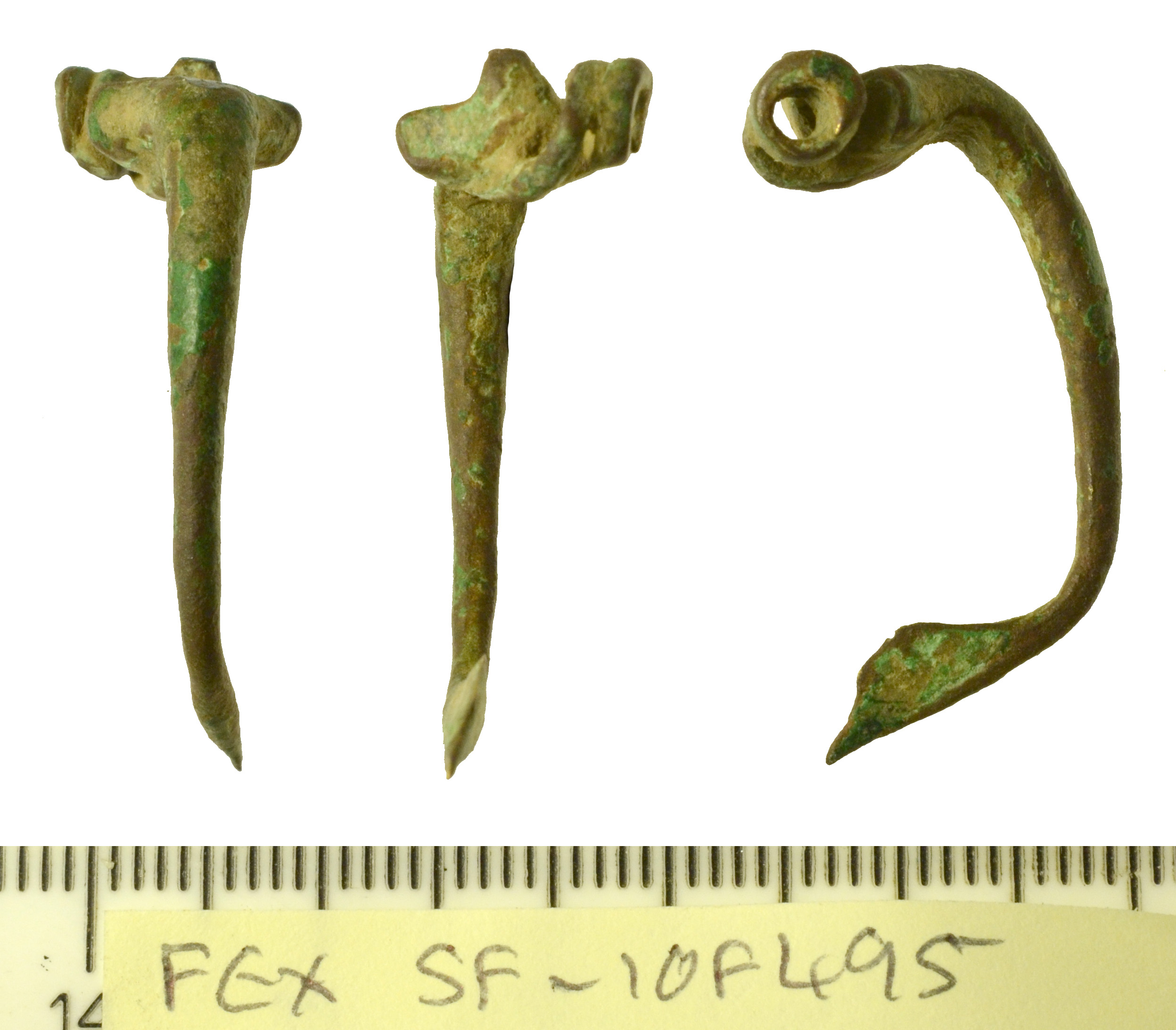 An incomplete copper-alloy Iron Age to Roman Colchester bow brooch. It is missing half of the integral spring, the pin, most of the hook and catchplate due to old breaks. The wings are flat, rectangular in form and undecorated, missing their outer edges due to old breaks. They are separated by an integrally cast spring hook and spring, of which two coils survive intact. The bow itself is worn, oval sectioned and tapering to a pointed foot. On the back face of the foot are the remains of an integrally cast catchplate, which is D-shaped in form but missing its outer edges due to old breaks. The brooch measures 30.30mm in length, 9.03mm in width at wings, 4.30mm in width at bow, 3.10mm in thickness at bow and 2.67g in weight. This is an incomplete Roman Colchester brooch similar to examples from Hacheston (e.g. Blagg et al., 2004: no. 63). It is of 1st century AD date, c.25-60 AD.